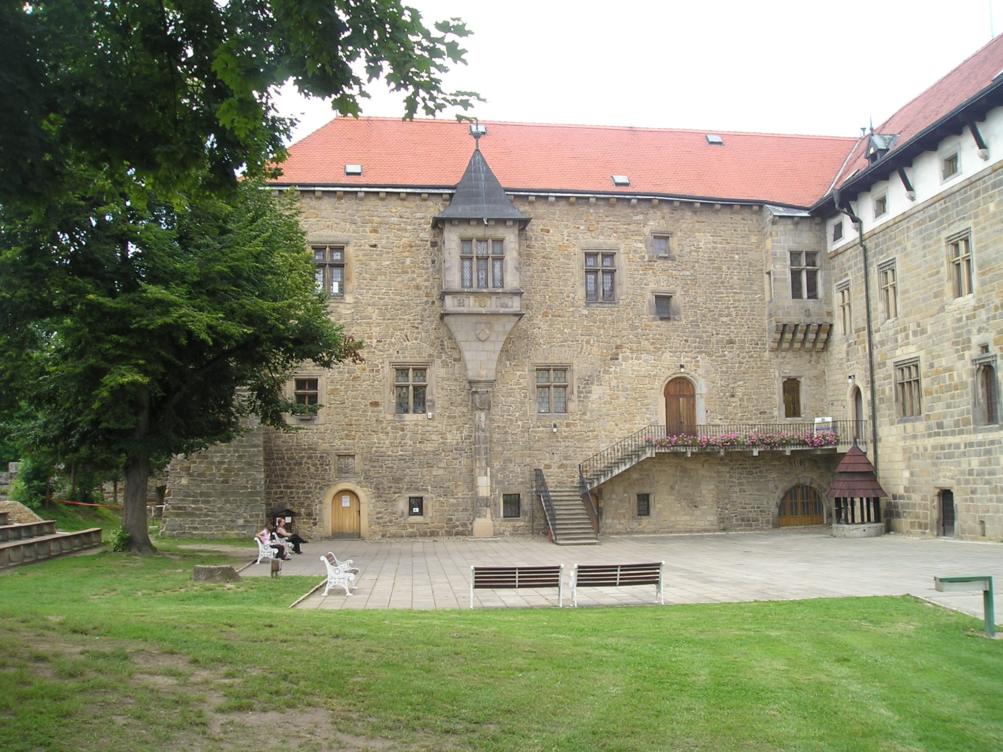 Water Castle in Budyně nad Ohří, Czech Republic